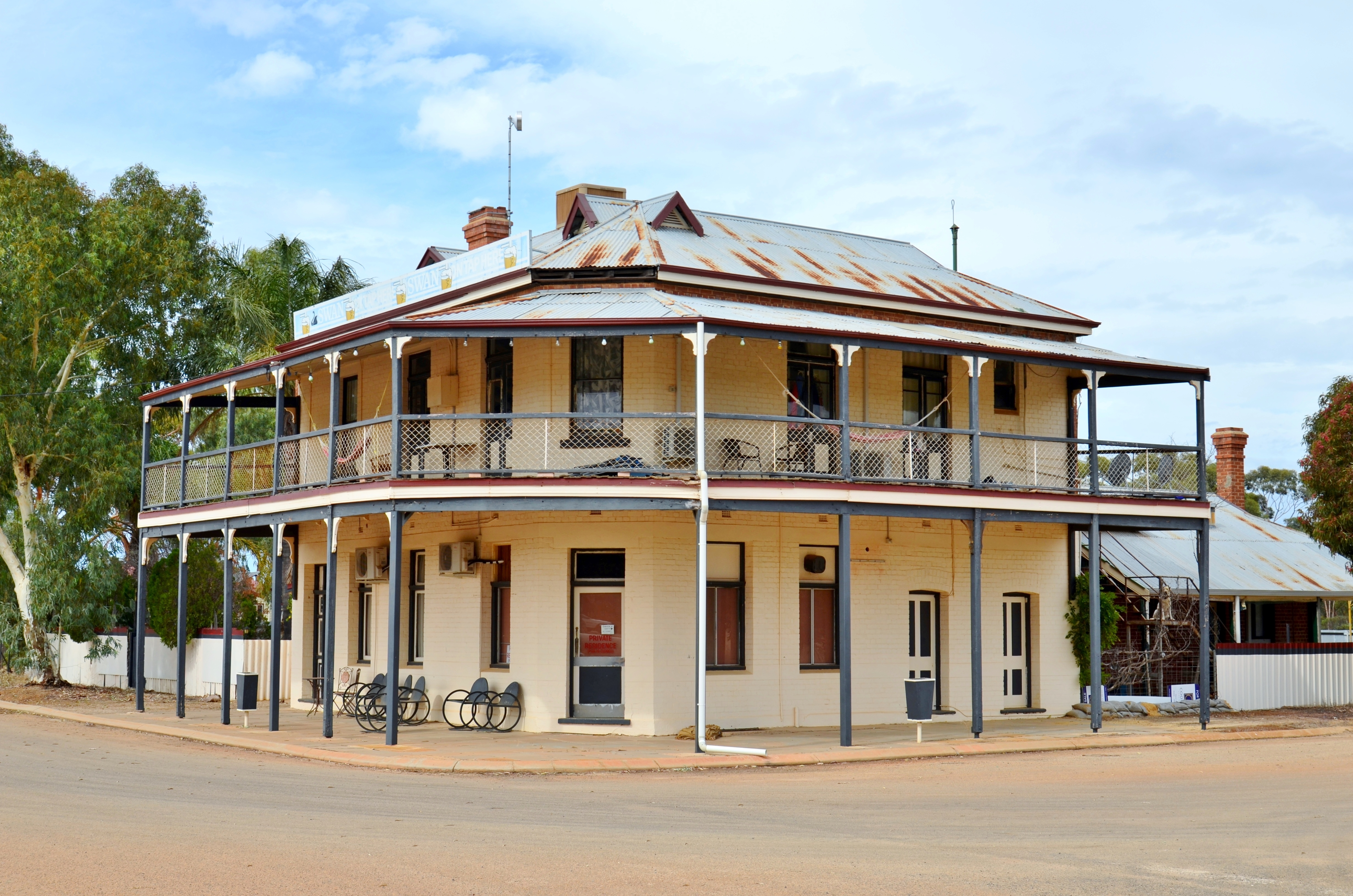 View of the former Burracoppin Hotel, now a private residence in Burracoppin, Western Australia.